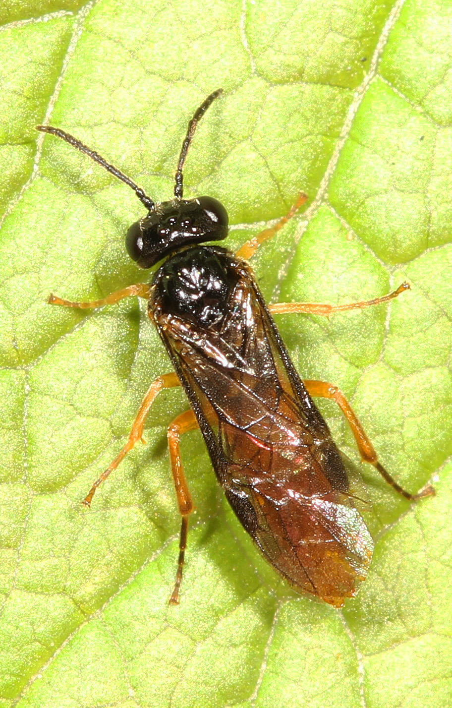 Sawfly - Halidamia affinis, Carderock Park, Carderock, Maryland. Montgomery County, 4/23/2014 - identified by Bugguide